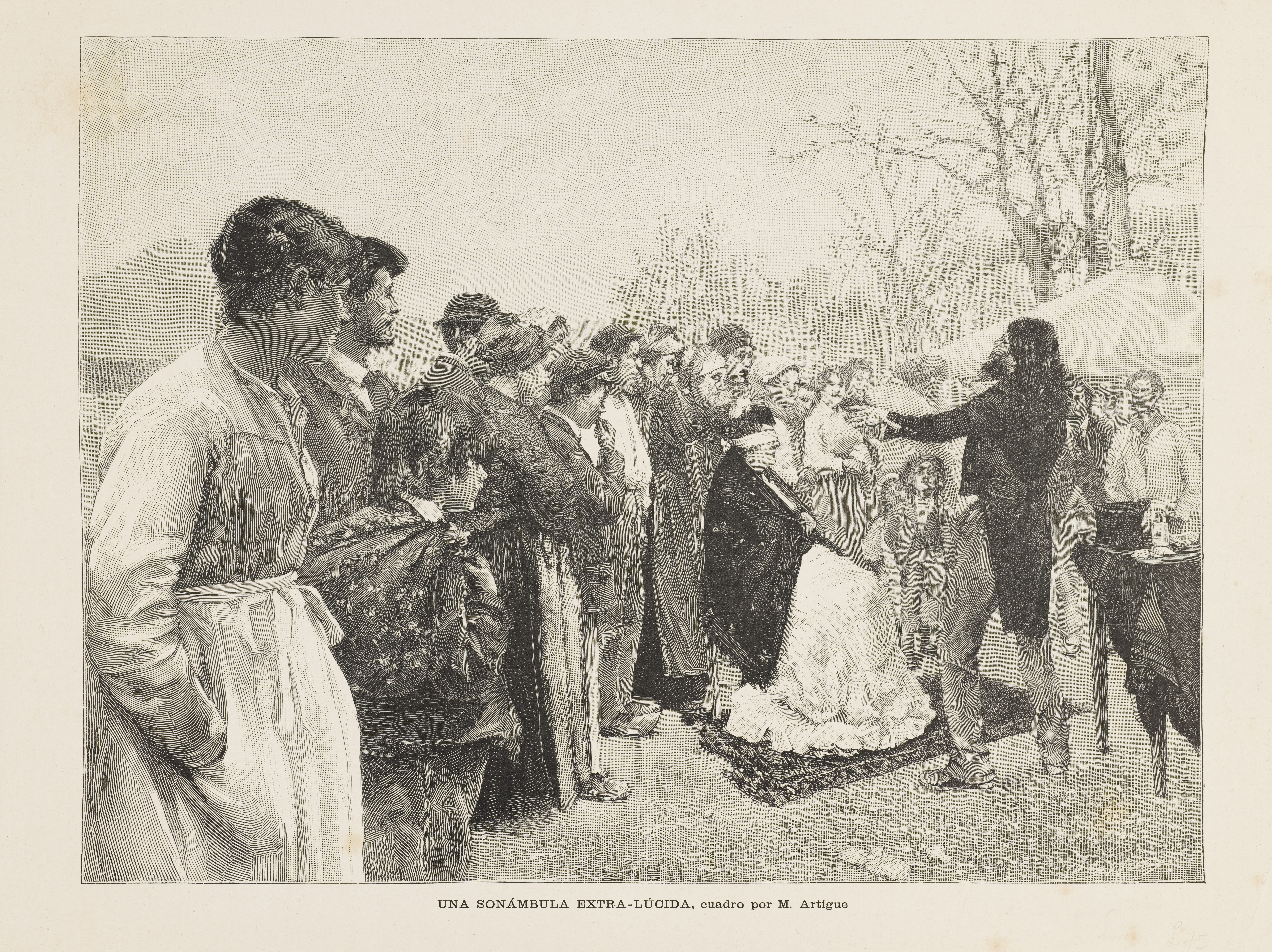 A pair of mind-readers performing among a group of villagers. Wood engraving after Artigue. A woman clairvoyant sits with her eyes blindfolded while a man asks her questions. Behind him, stands a table on which are a magician's hat and some cards. In the background stand some tents. The scene probably takes place at a country fair Iconographic Collections Keywords: Albert Émile Artigue; Bernard-Joseph Artigue